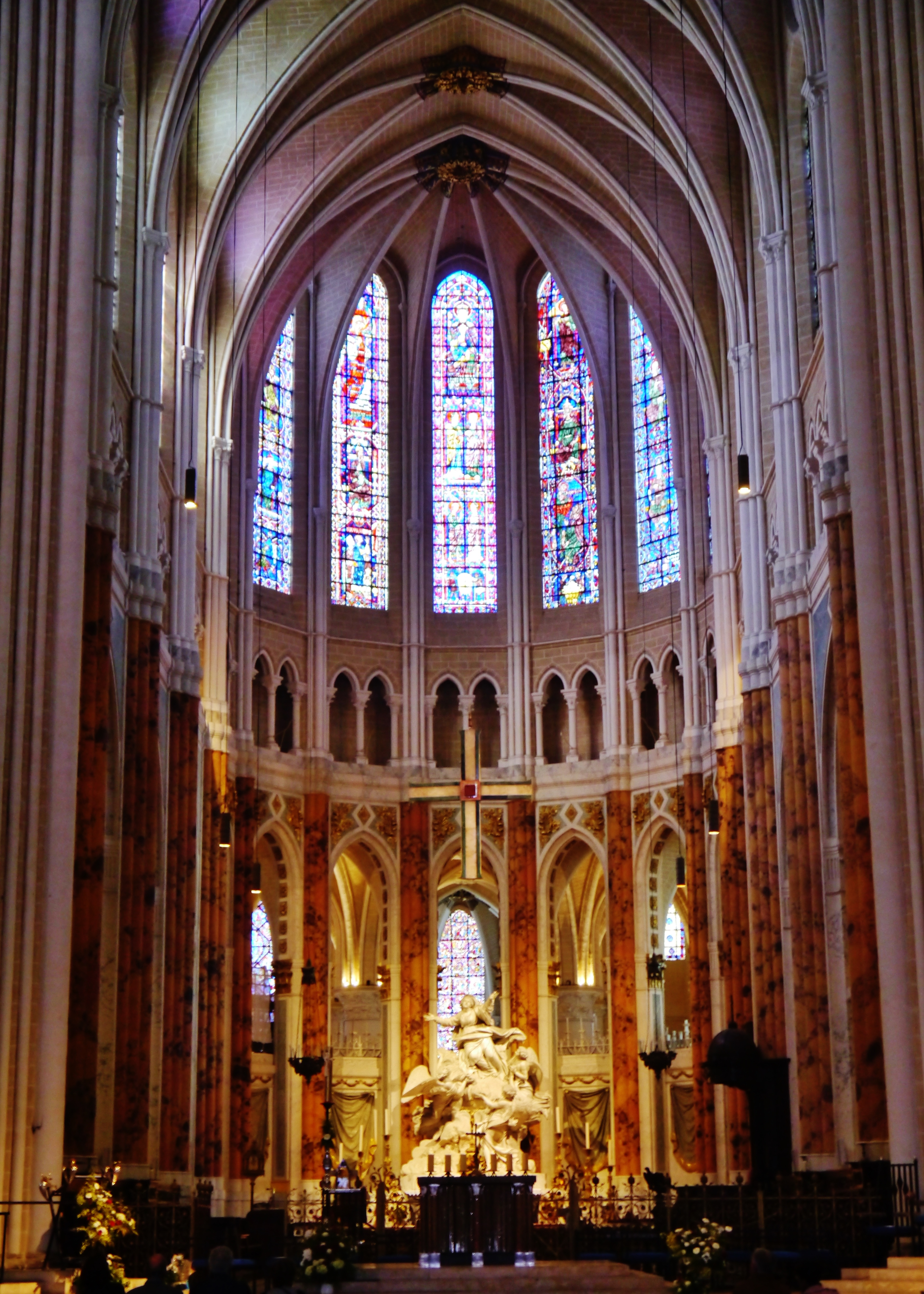 Choir of the Cathedral of Our Lady, Chartres, Department of Eure-et-Loire, Region of Centre-Loire Valley, France